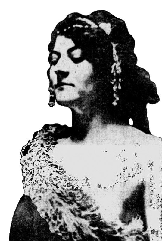 Doris Doscher, by some accounts the woman who modeled for Hermon MacNeil's design for the Standing Liberty quarter